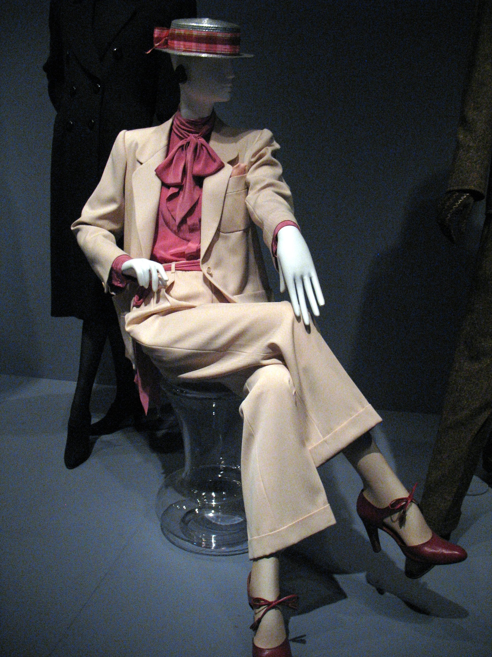 Yves St. Laurent historic designs at deYoung Museum in San Francisco